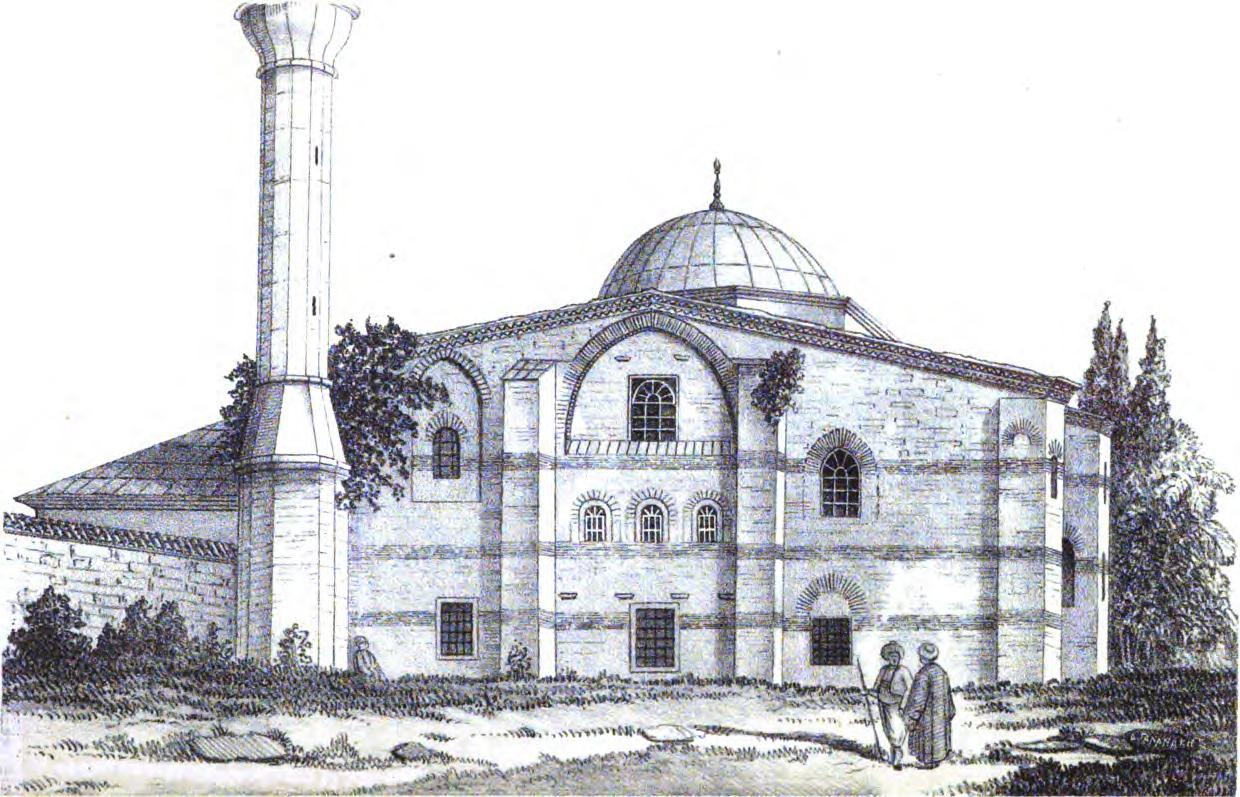 Byzantinai meletai topographikai (1877) Author: Paspatēs, Alexandros Geōrgiou, 1814-1891. [from old catalog] Subject: Inscriptions, Greek Year: 1877 Possible copyright status: NOT_IN_COPYRIGHT Language: English Digitizing sponsor: Google Book contributor: Oxford University Collection: europeanlibraries